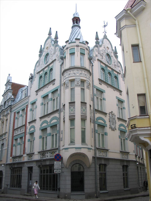 A building (1909) just the opposite of Dragon Gallery, Pikk street 21-25. August Volz was the sculptor.